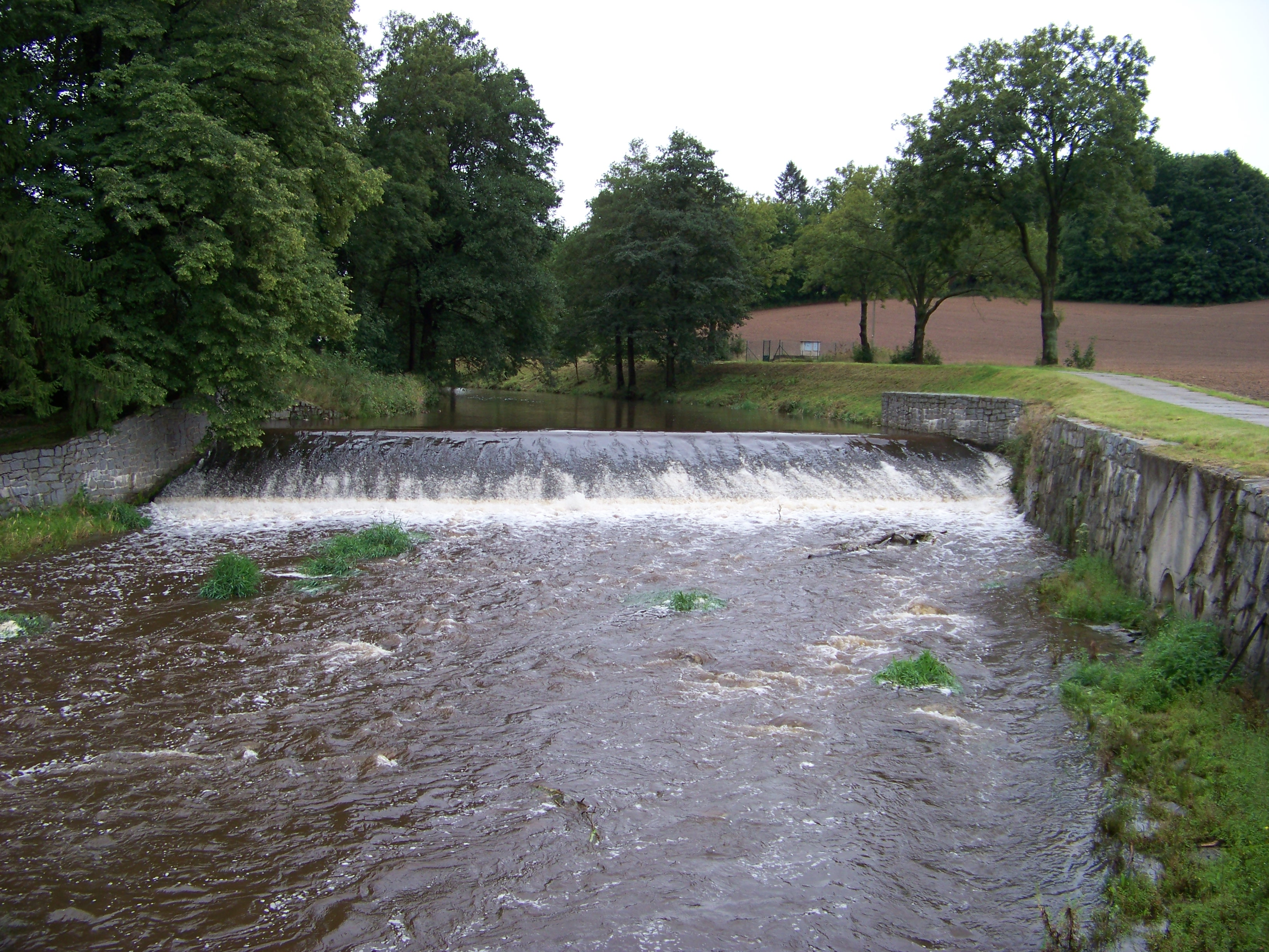 Volyně, Strakonice District, South Bohemian Region, Czech Republic. Volyňka river, a weir near U Valšičky street. - OpenStreetMap(Info)